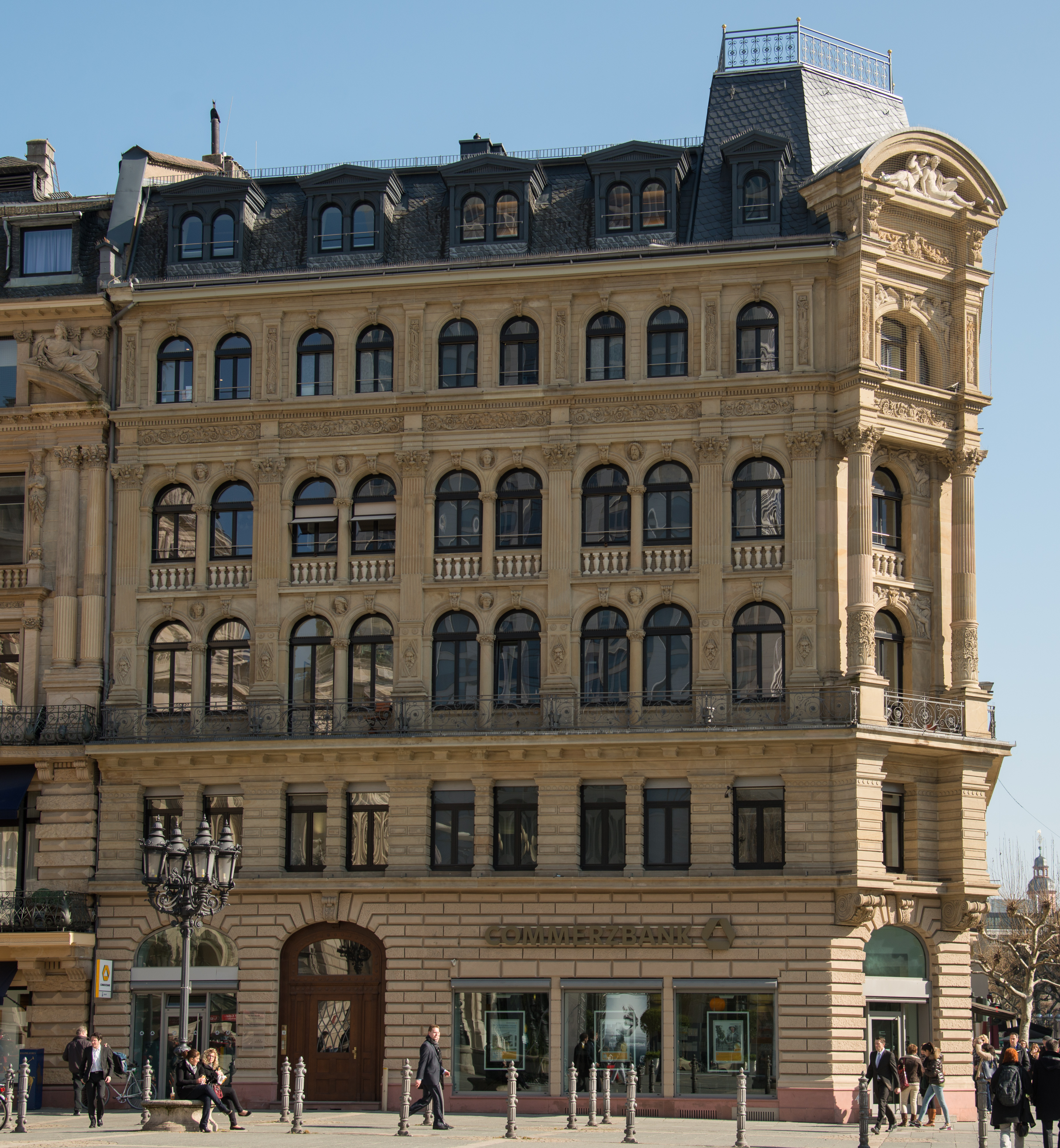 Frankfurt am Main, Opernplatz 6. Cultural monument of the city.